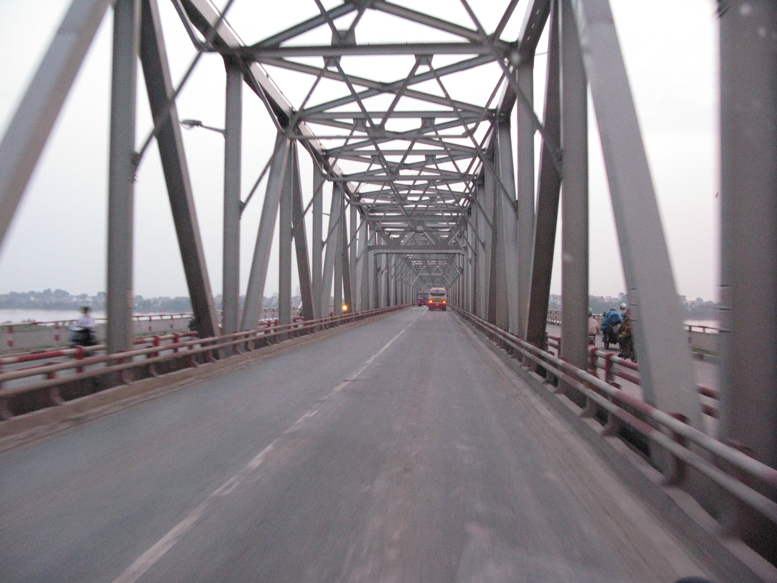 Chương Dương Bridge, Hà Nội, Việt Nam